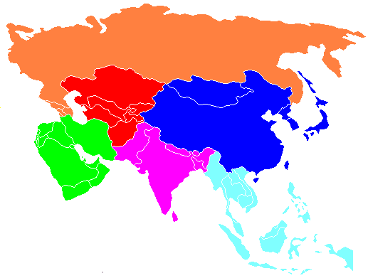 Color-coded map of the regions of Asia: North Asia Central Asia East Asia Near East/Middle East South Asia Southeast Asia